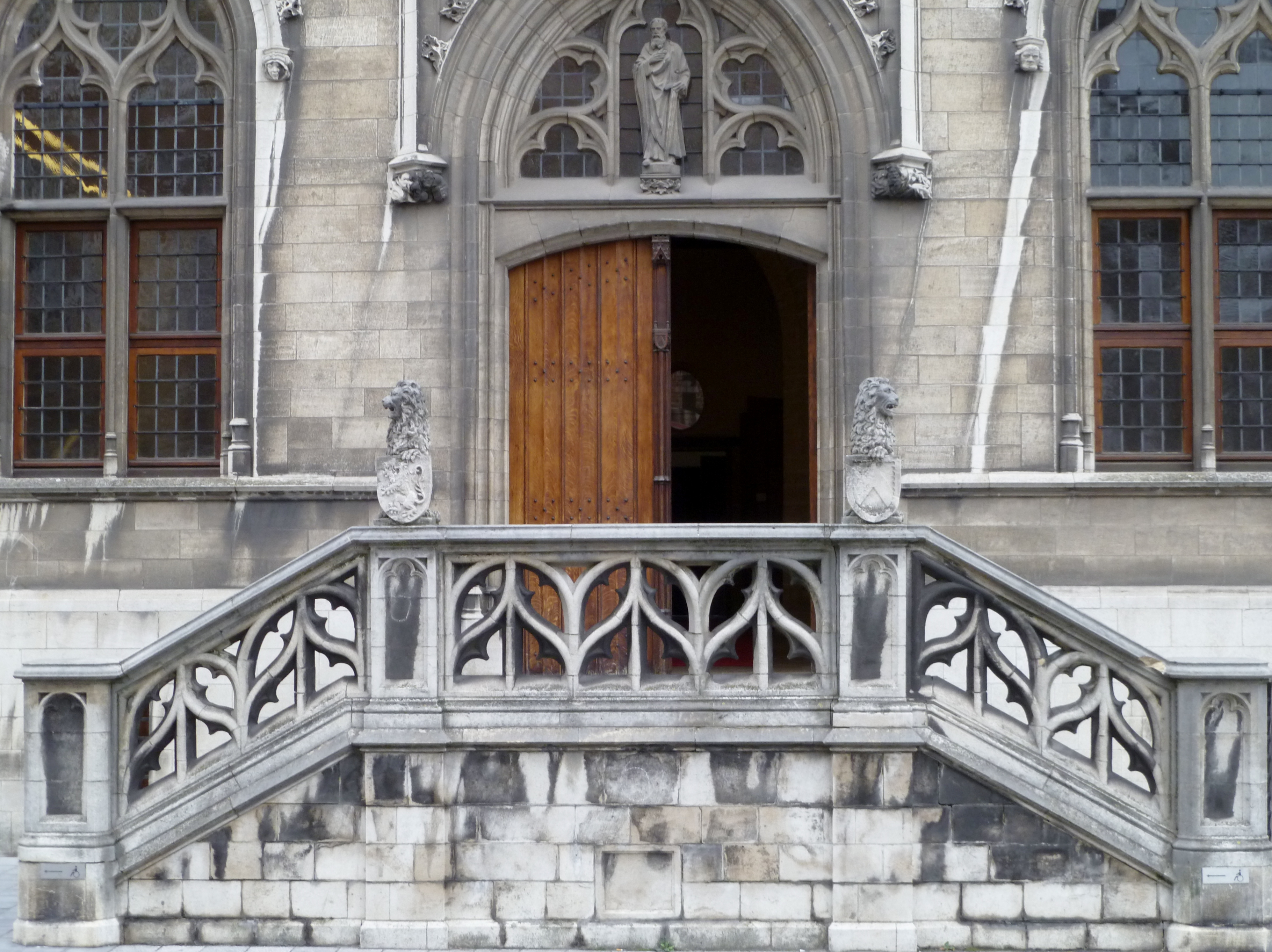 Entrance to the City Hall, Courtrai, Belgium